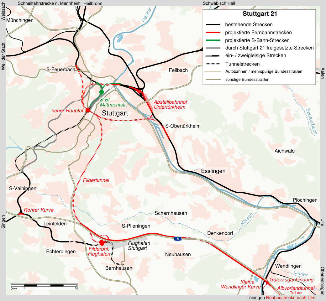 map of project Stuttgart 21.